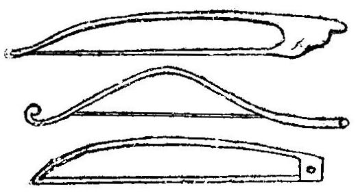 Bow illustrations from XVI century.